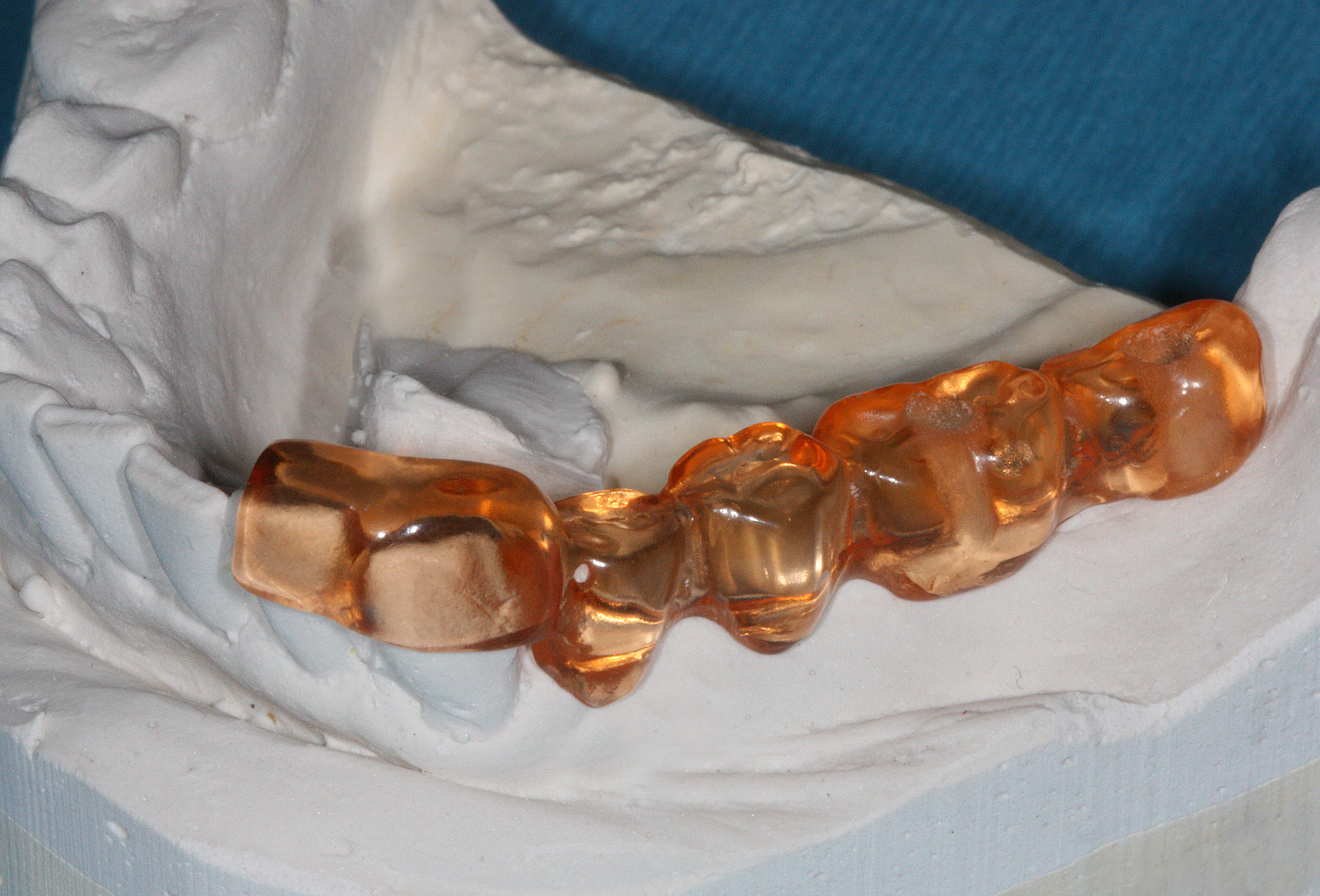 An acrylic stent created before surgery to assist with the position and angulation of implants.